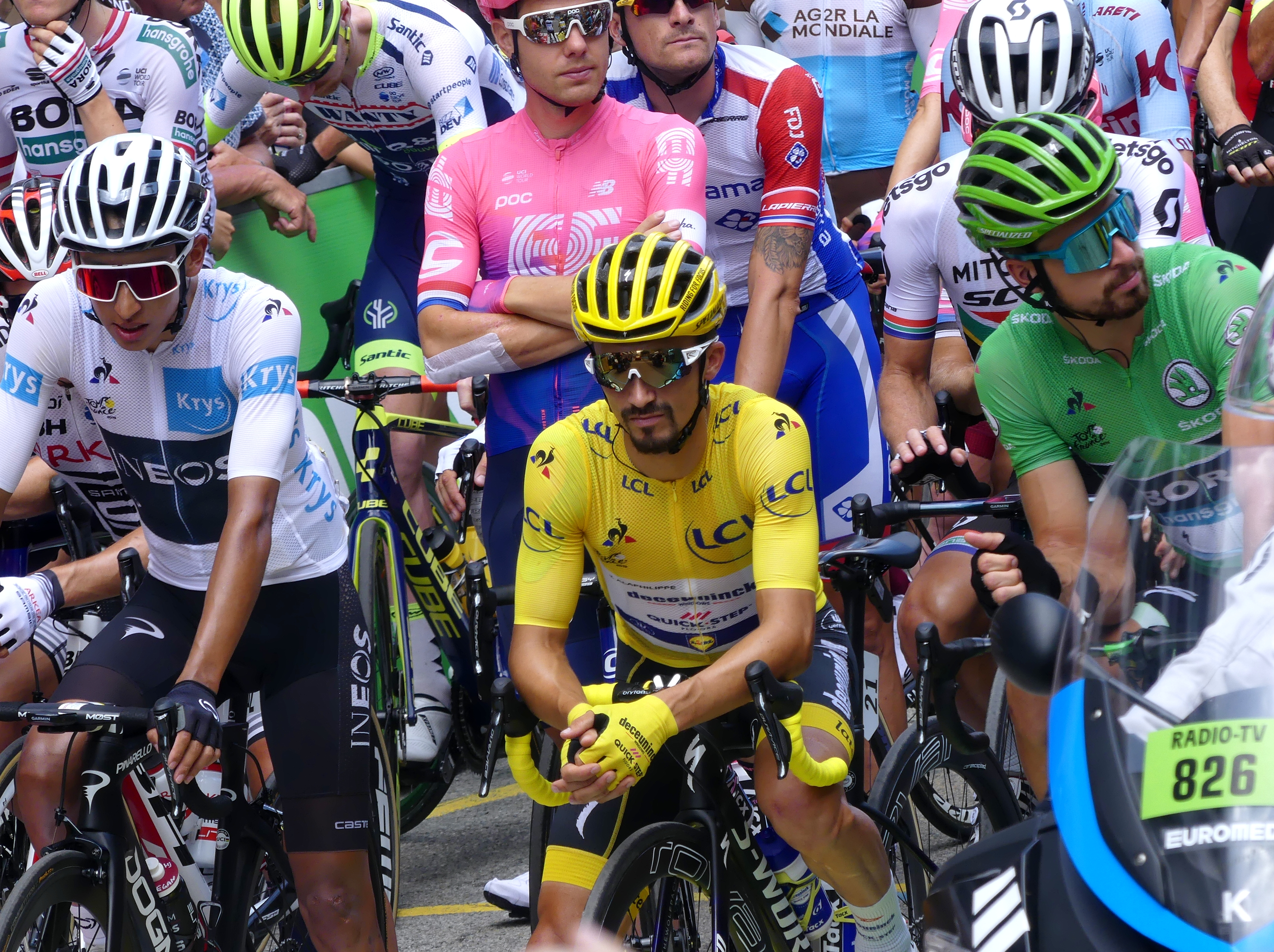 Photograph of cyclists at the start of stage 19 of the 2019 Tour de France, with Julian Alaphilippe wearing the yellow jersey, in Saint-Jean-de-Maurienne, Savoie, France.